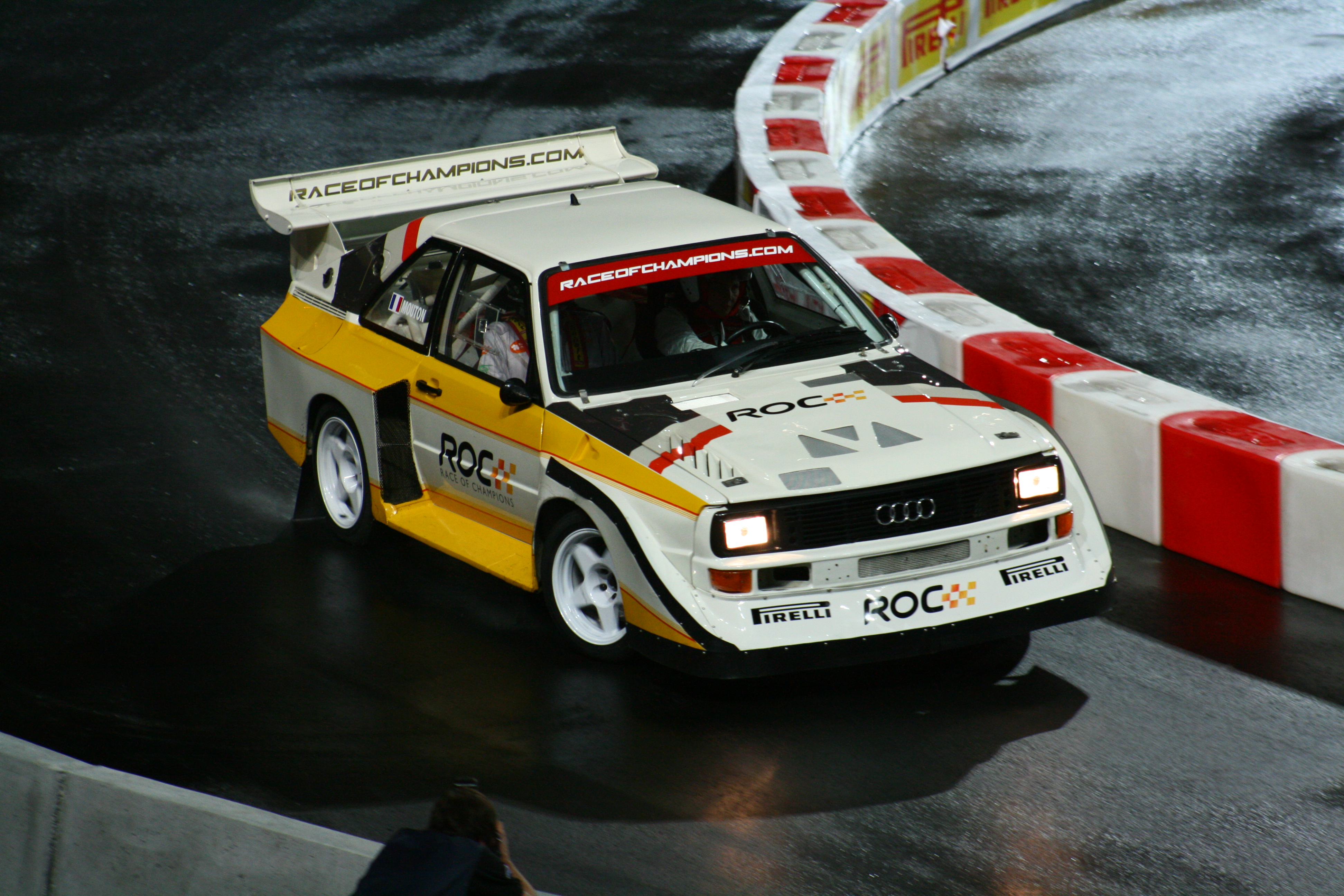 Michèle Mouton drives an Audi Quattro S1 during the 2009 Race of Champions South Europe finals at the Estádio do Dragão in Porto, Portugal.